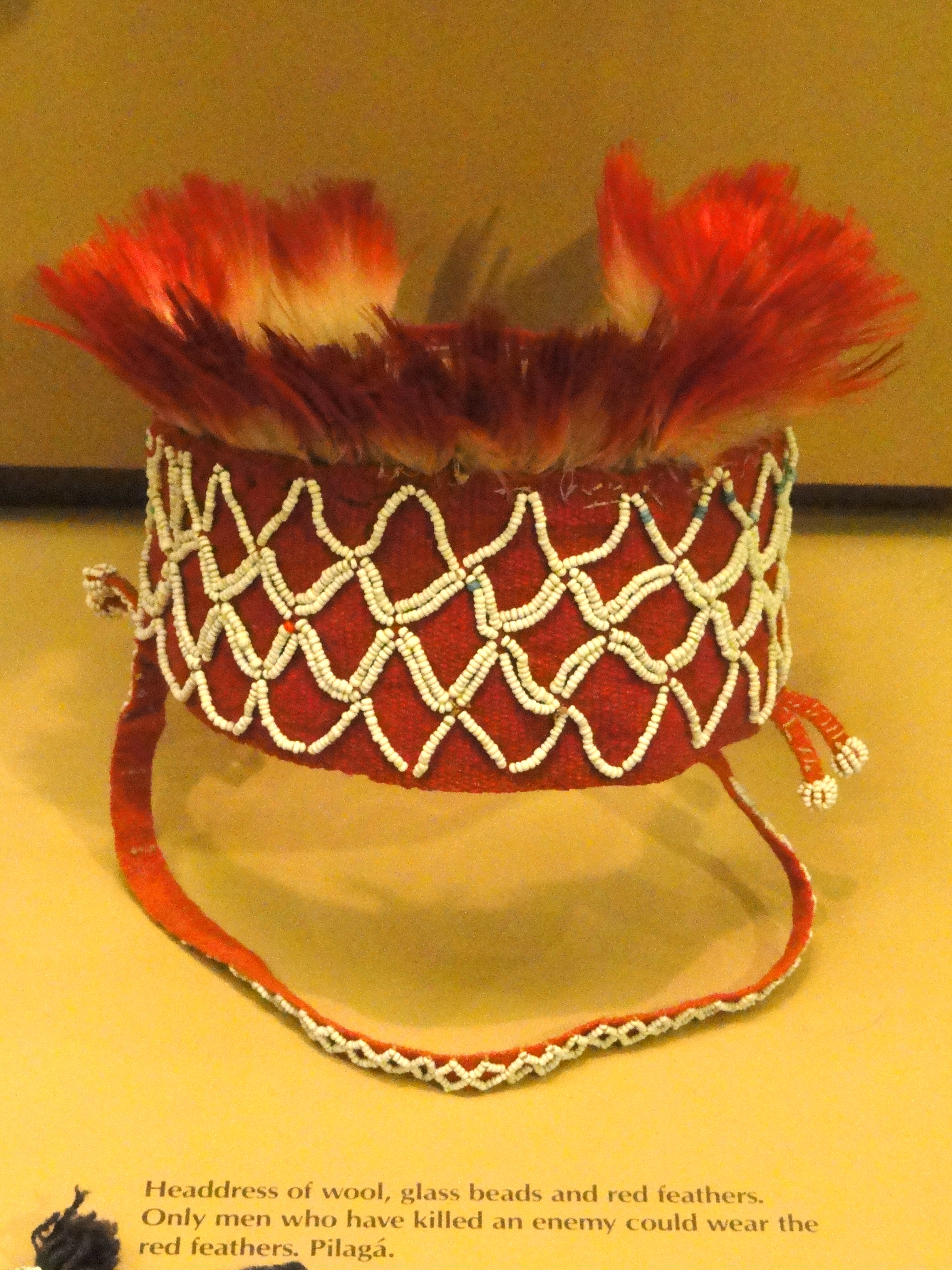 Exhibit in the South American collection of the American Museum of Natural History, Manhattan, New York City, New York, USA.